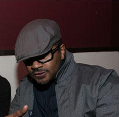 John Threat (Corrupt). Made by Midderwe.